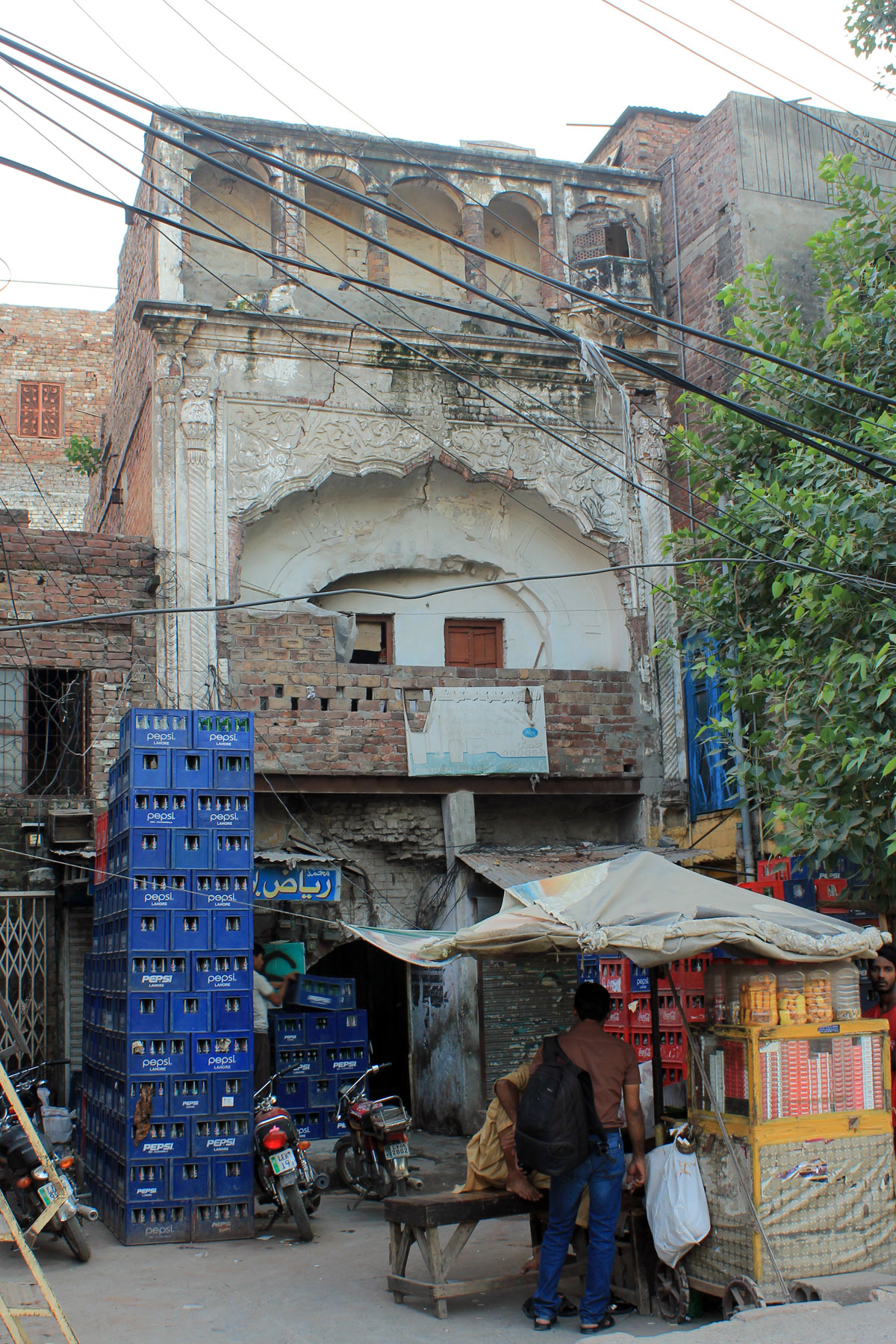 Sheetla Mata Mandir This is a photo of a monument in Pakistan identified as the PB-P-78